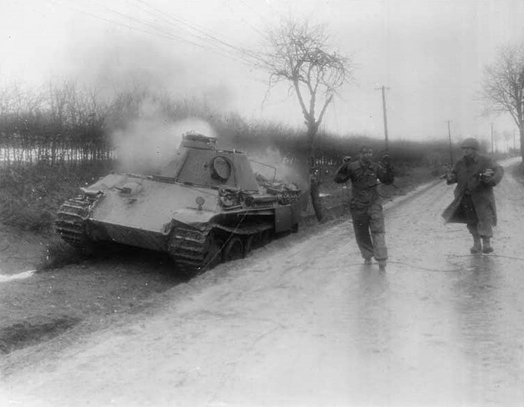 A German prisoner is marched past a burning Nazi tank on a Belgian road. Sgt. Bernard Cook of Los Angeles, Calif of the 165th Photo Company, 1st US Army, walks behind the captured soldier. "165th Photo Co, FUSA, Krinkelt, Belg." Date: 17 December 1944. III-SC 198468